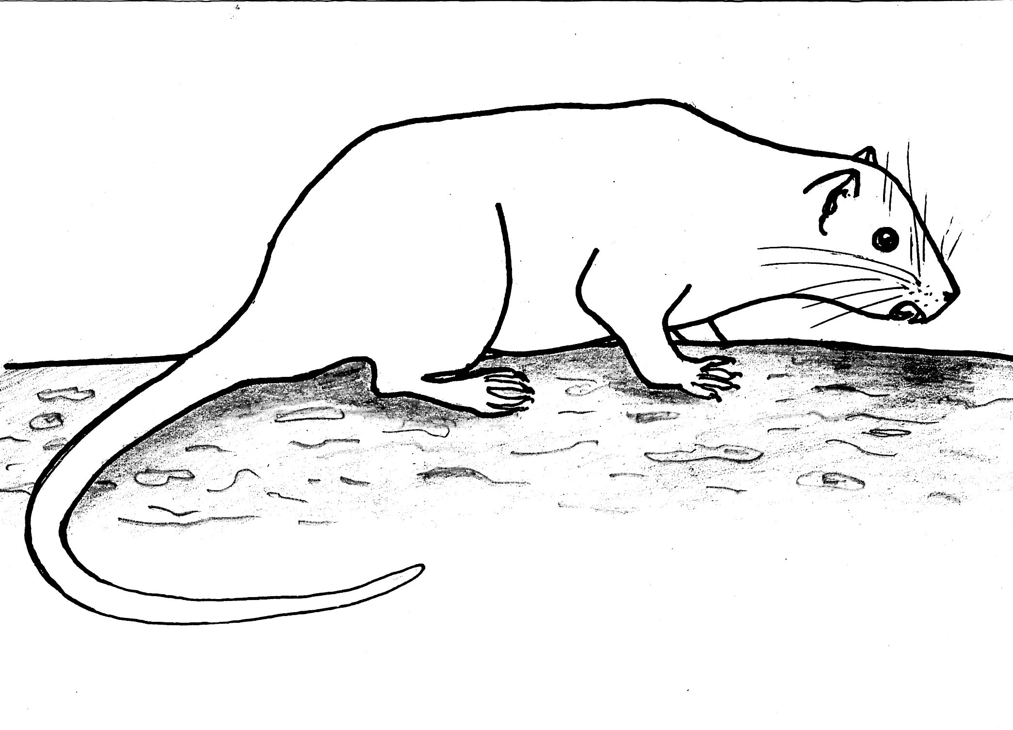 Mesocapromys sanfelipensis. Artistical drawing.